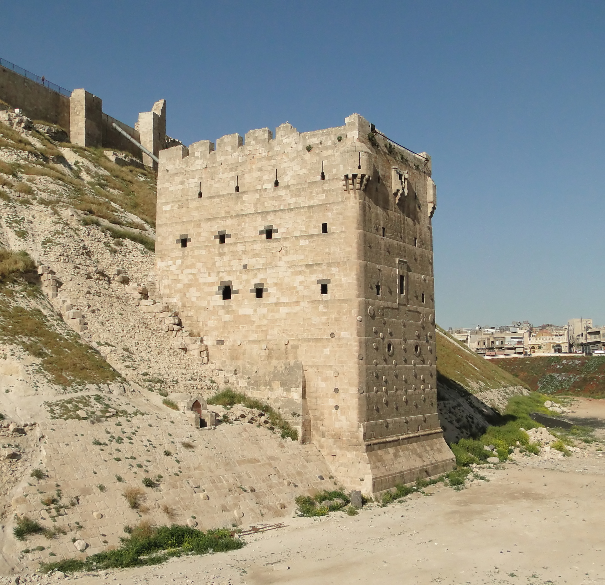 Right defence tower of the Citadel of Aleppo, Syria